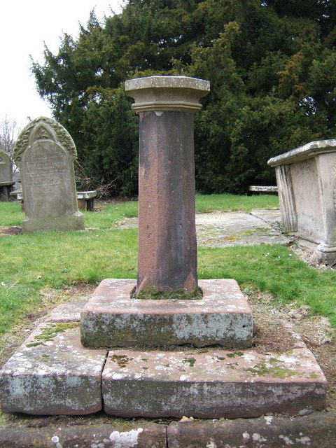 Sundial in St Bartholomew's parish churchyard, Great Barrow, Cheshire. The sundial was inscibed with the date 1705, but is missing from the top of the pillar. The shaft probably belongs to a churchyard cross that was broken in 1613.